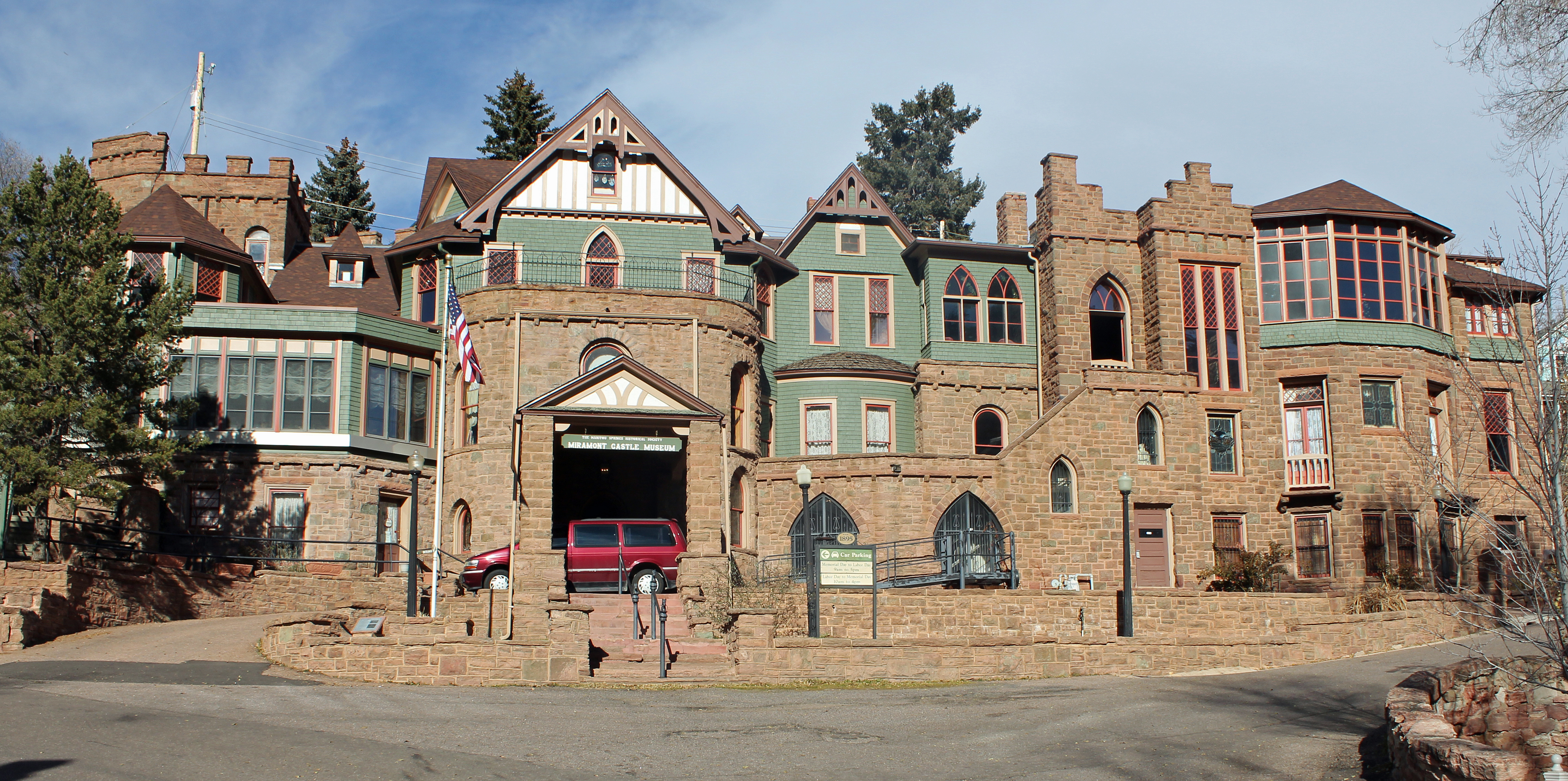 Miramont, a castle in Manitou Springs, Colorado. Also called Francolon’s Castle, the property is listed on the National Register of Historic Places. It now functions as a Museum.